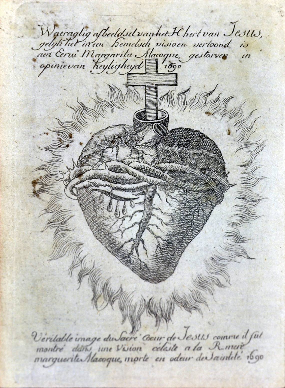 Engraving of the Sacred Heart of Jesus Christ, according a vision of Marguerite Marie Alacoque, 18th century. Musée du Coeur, MRAH, Jubilee Park, Brussels.